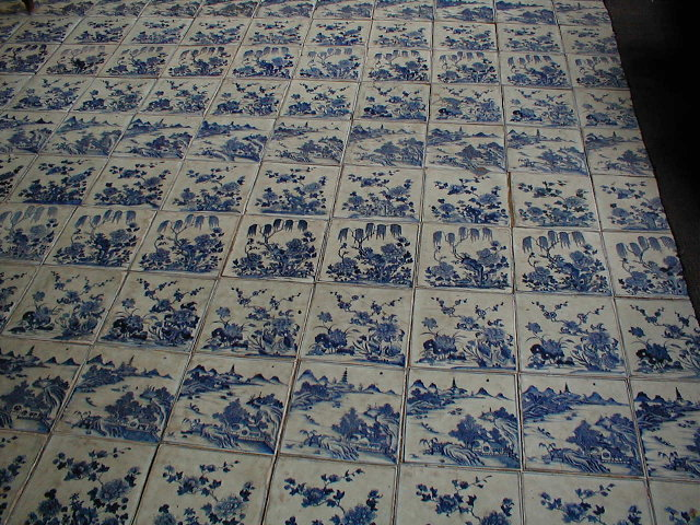 These tiles are hand-painted and were imported from China in the 18th century. They form the floor and are GORGEOUS.